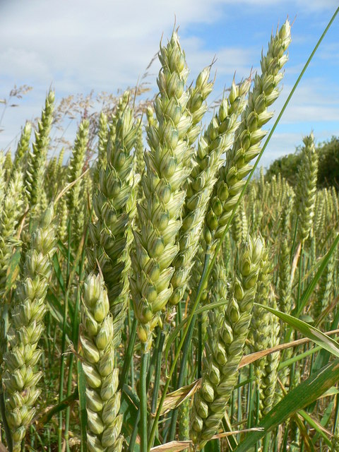 Wheat Field Opposite a field of Barley , is a field of wheat.